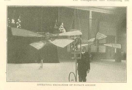 Armand Dufaux & operating mechanism of Dufaux Airship. (from Technical World Magazine, March 1906)